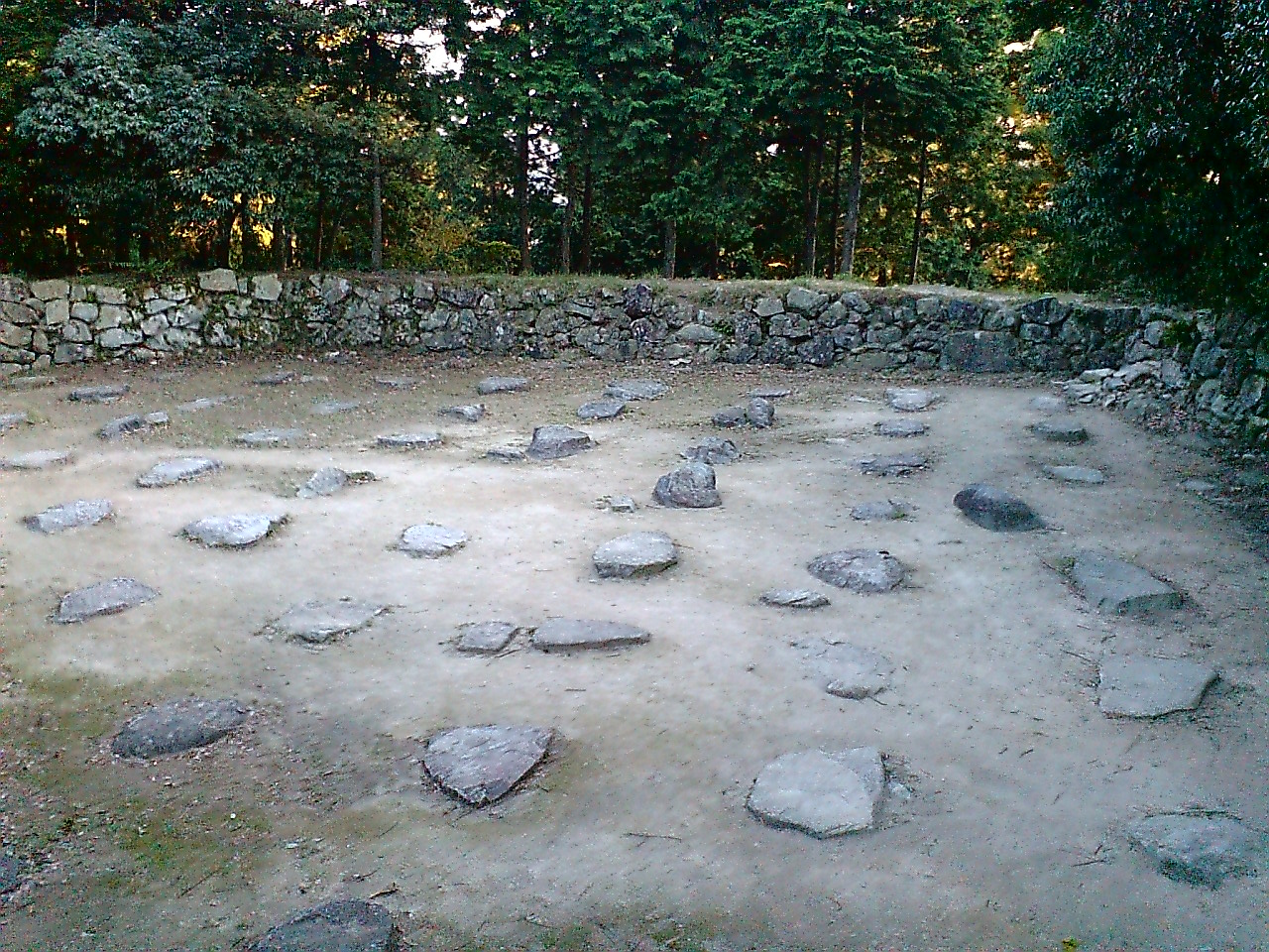 The Ruins of Azuchi Castle Tenshukaku (Tower)